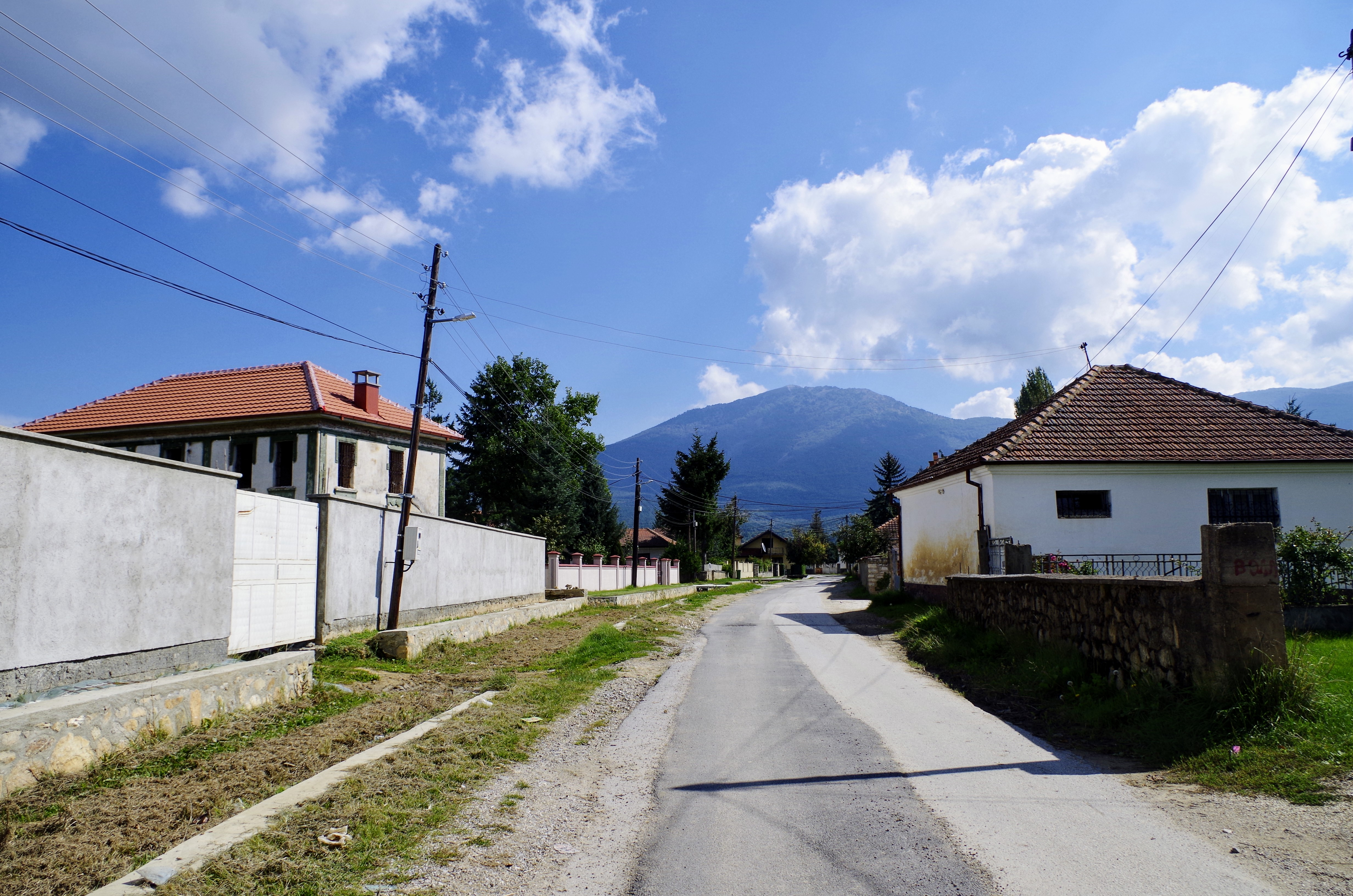 View of the village Dolna Bela Crkva